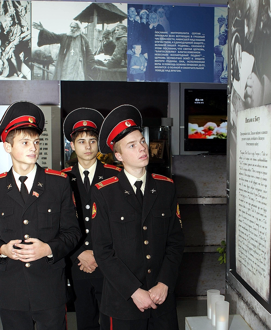 Students of the Suvorovsky military college in Technological college №14